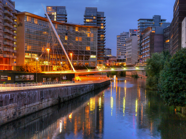 The River Irwell with Trinity Bridge